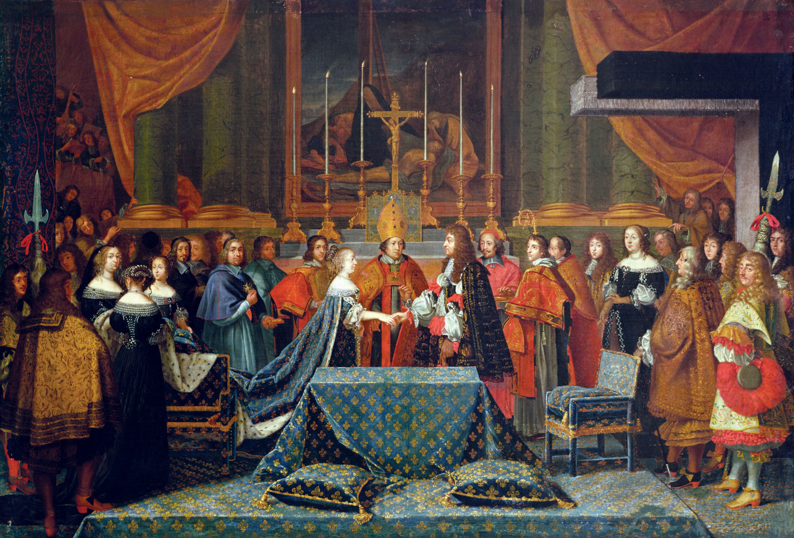 Wedding of Louis XIV of France, June 9th 1660.